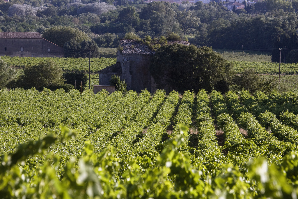 Vineyards of AOC chusclan near Bagnols-sur-Cèze